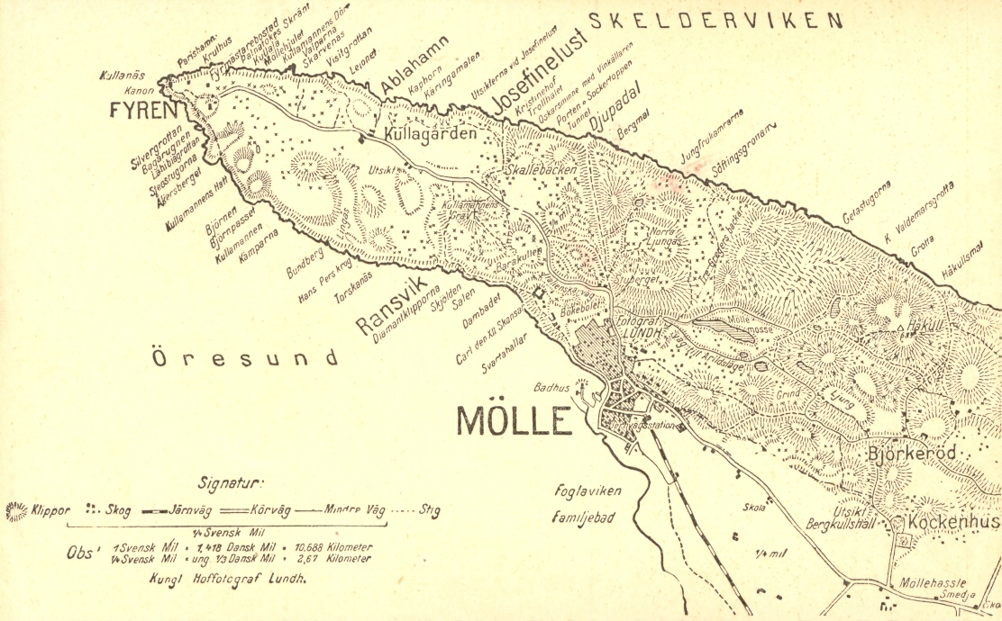 Map of Kullaberg, northwestern Skåne County, western Sweden.